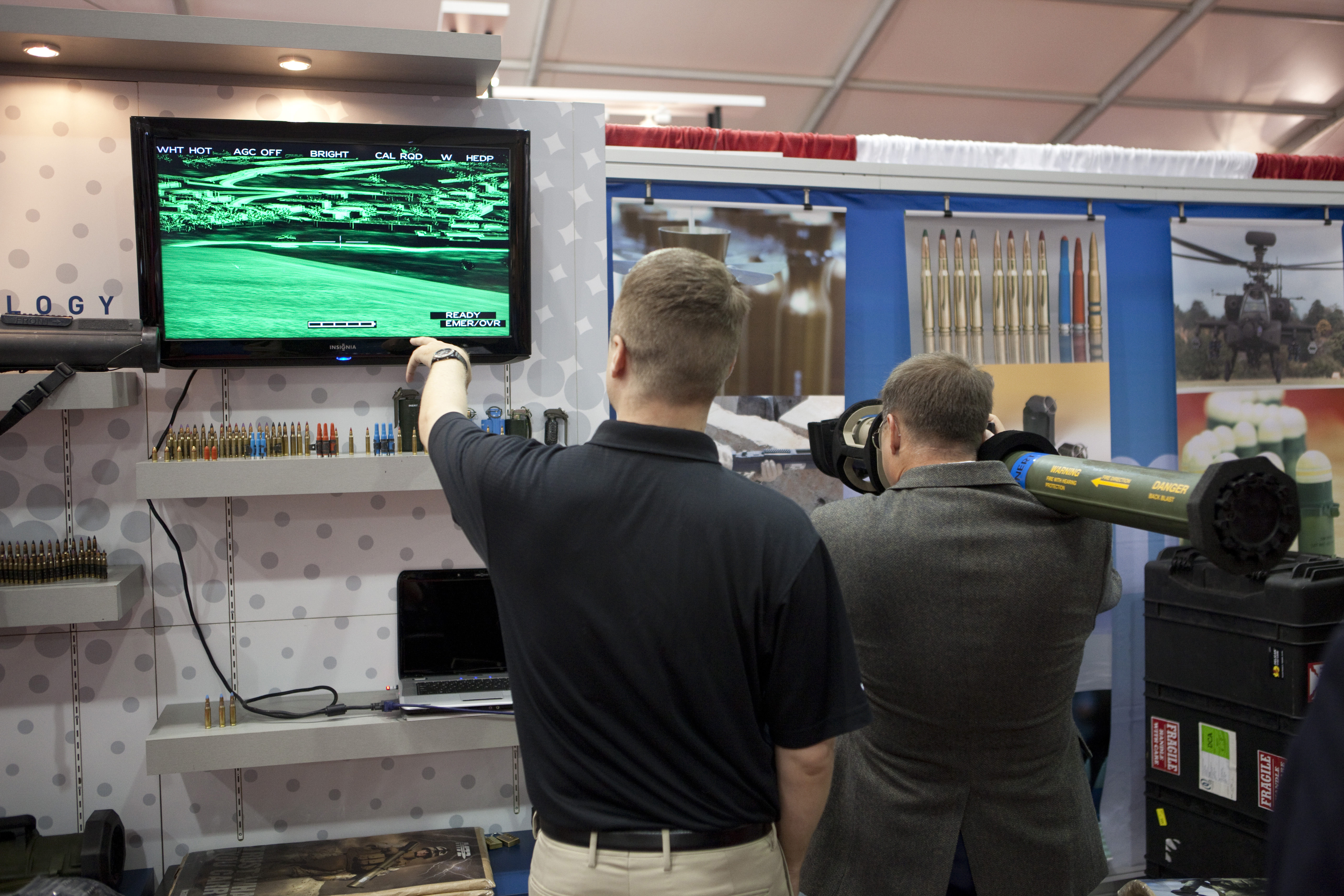 More than 400 vendors displayed their products at the Modern Day Marine Exposition Sept. 28-30, 2010, at Marine Corps Base, Quantico, Va. Among the vendors was Nammo Tally Inc., they were displaying a shoulder-launched munitions system called the Serpent.